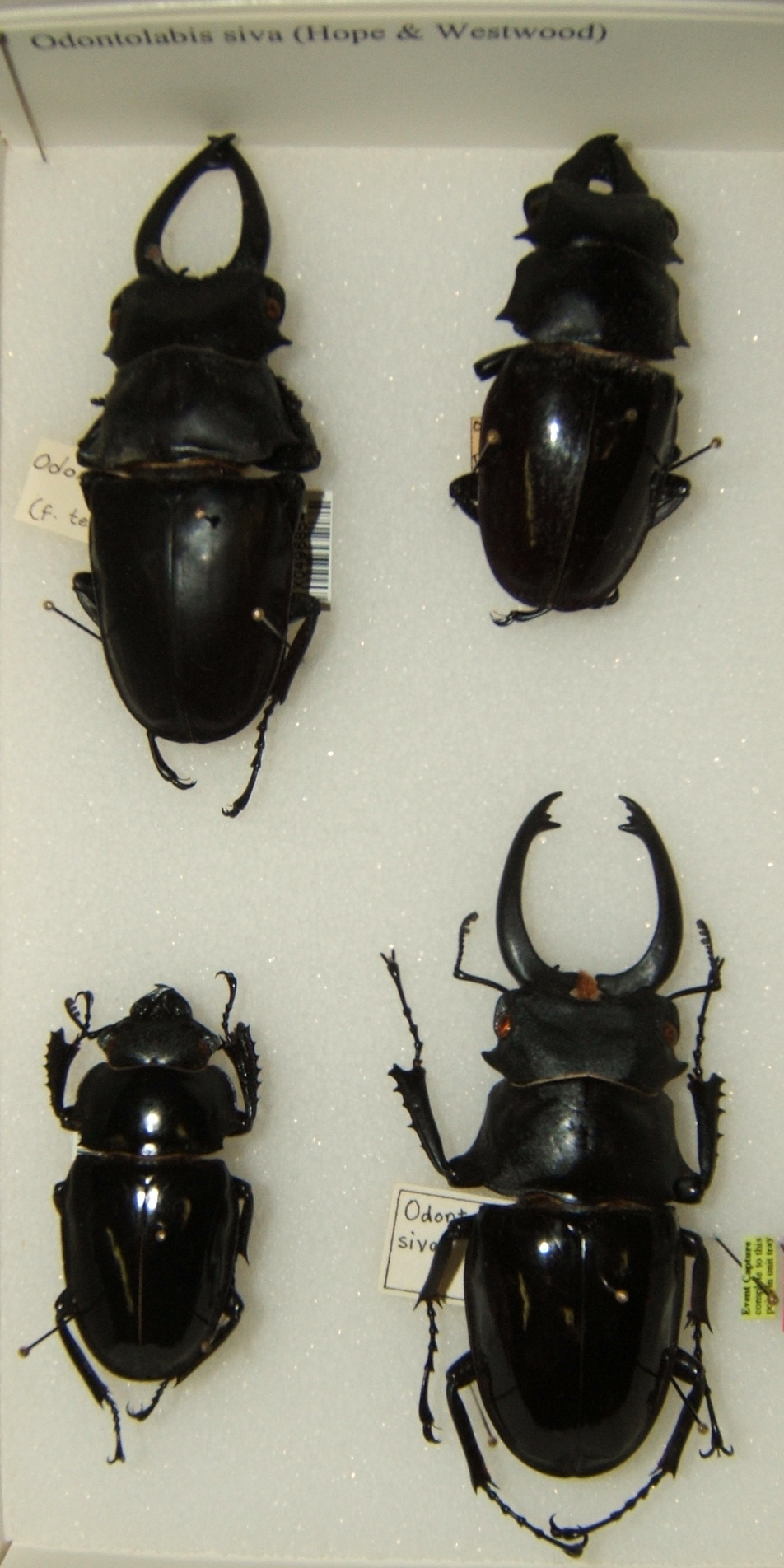 Odontolabis siva adult variation taken by Shawn Hanrahan at the Texas A&M University Insect Collection in College Station, Texas.